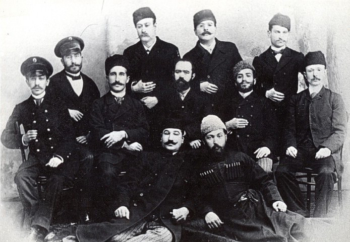 Turkish theater figures in Baku